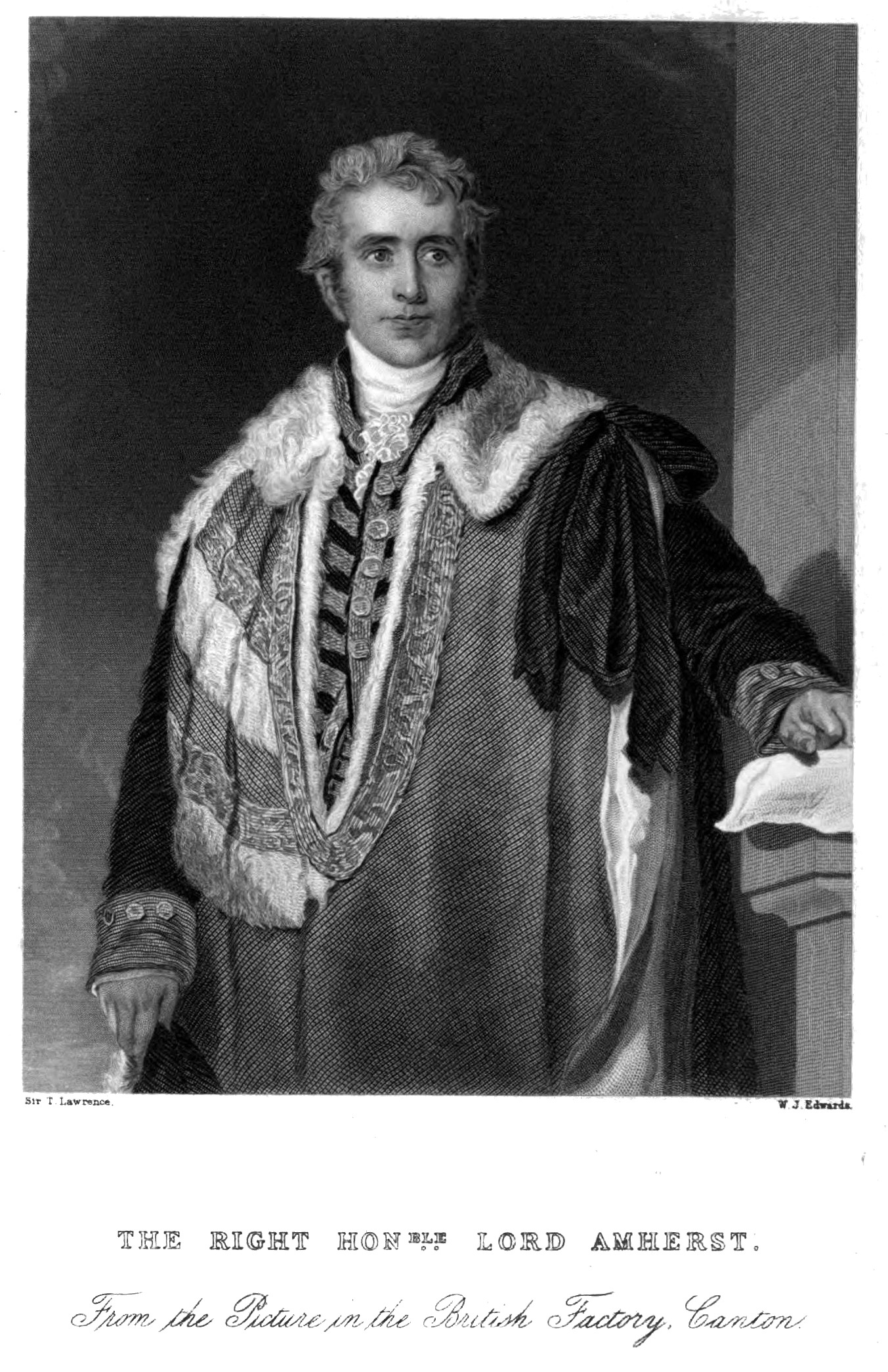 William Pitt Amherst, 1st Earl Amherst, GCH, PC (14 January 1773 – 13 March 1857)